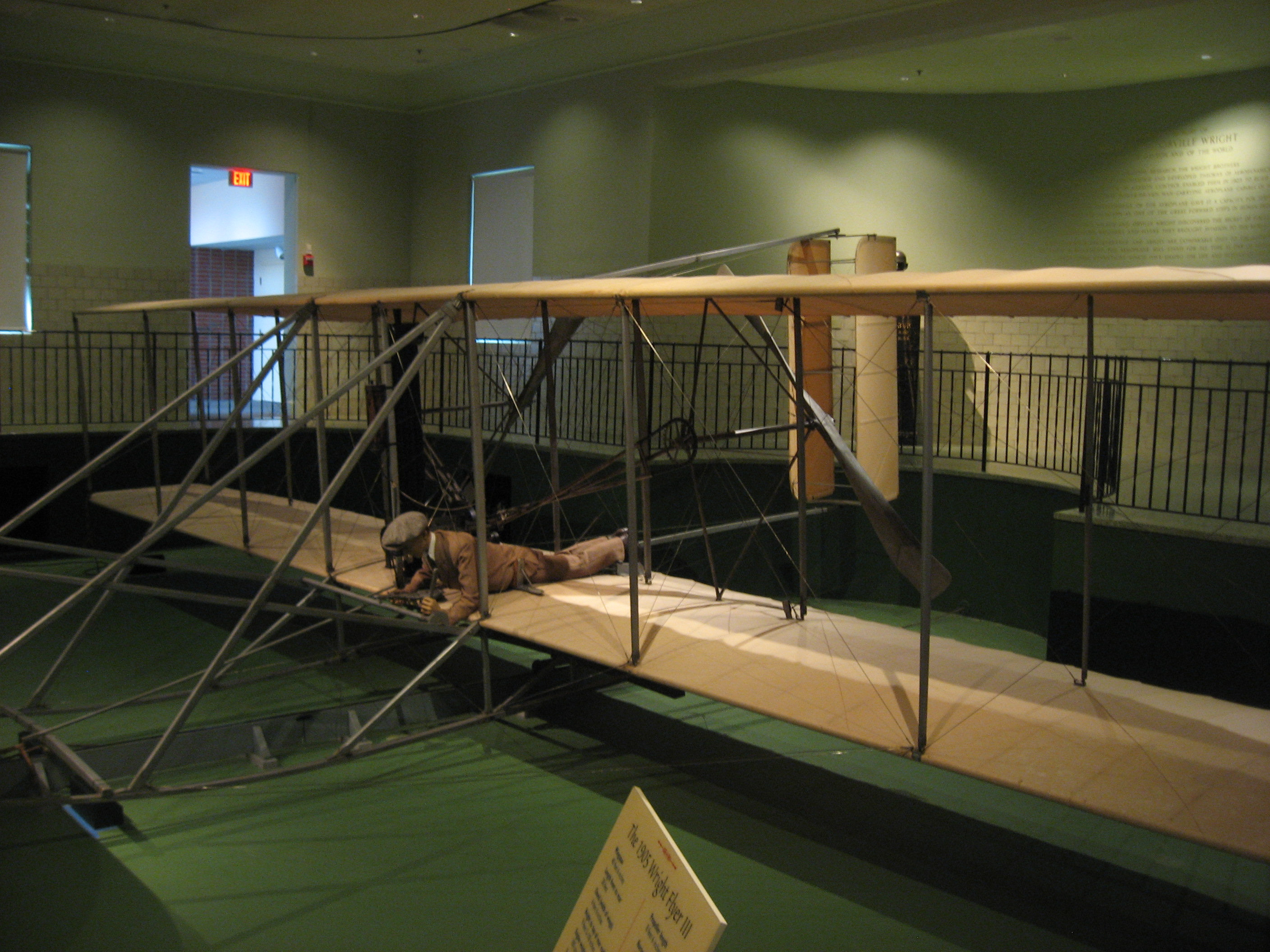 Front of the Wright Flyer III inside Wright Hall at Carillon Historical Park in Dayton, Ohio, United States. Built in 1905, it was the first practical airplane, and it has been designated a National Historic Landmark. A comprehensive image is not possible because of the small size of the room: I could not back up far enough to get the entire airplane in the photo.